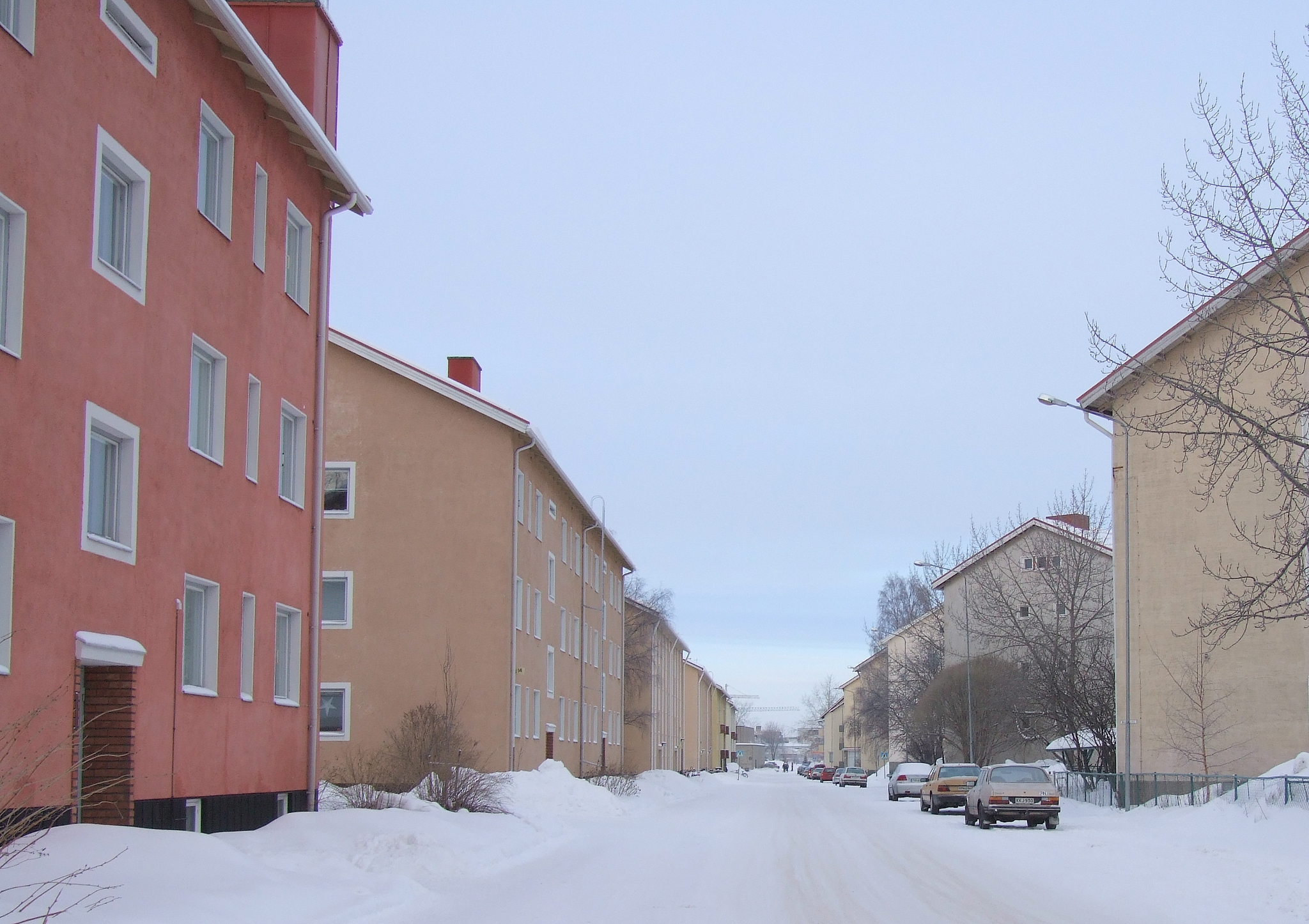 Hakakatu street in Karjasilta, Oulu, Finland. Weather: −10 °C